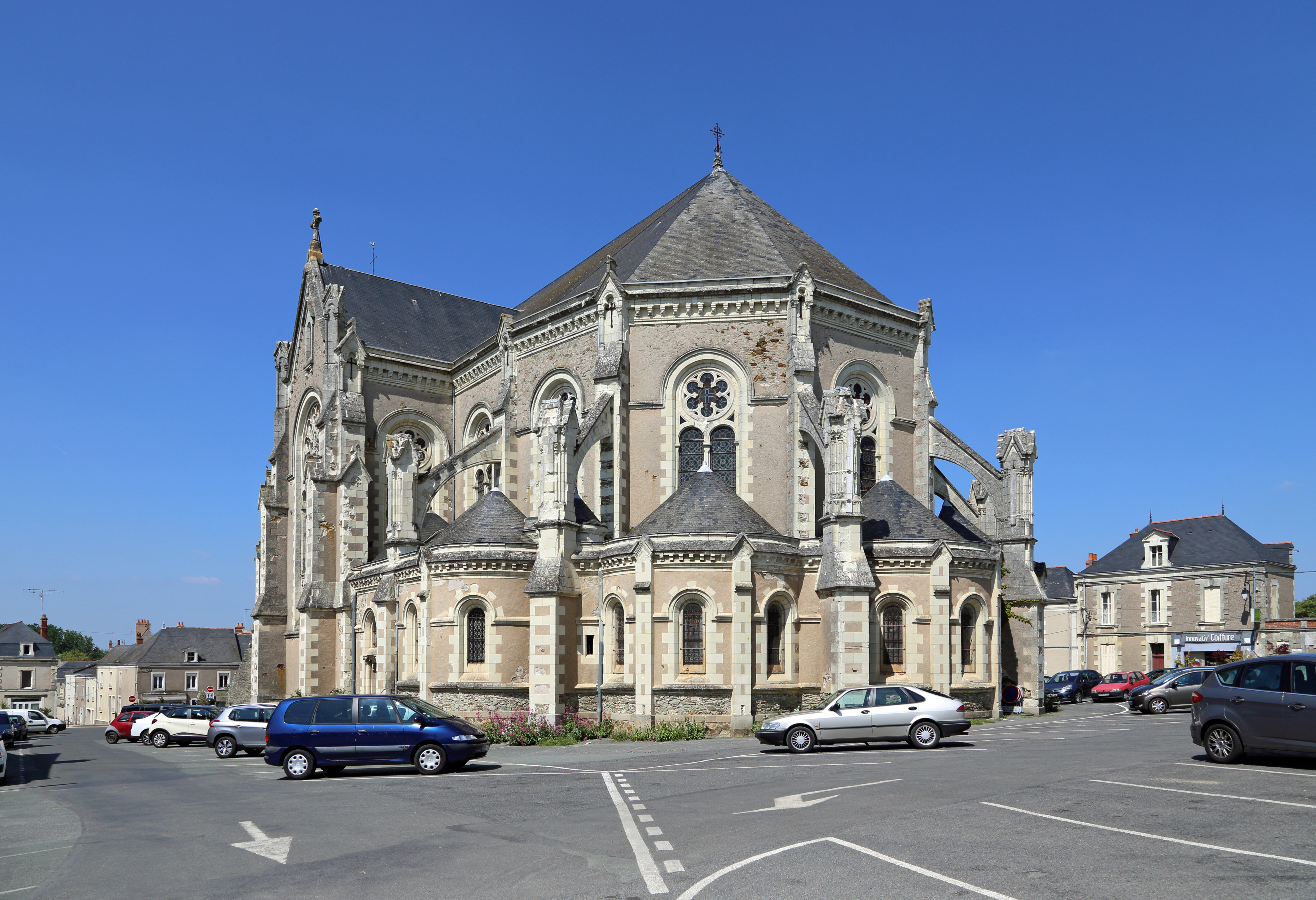 Rochefort-sur-Loire (département Maine-et-Loire, France): church of the Holy Cross (Église Sainte-Croix)